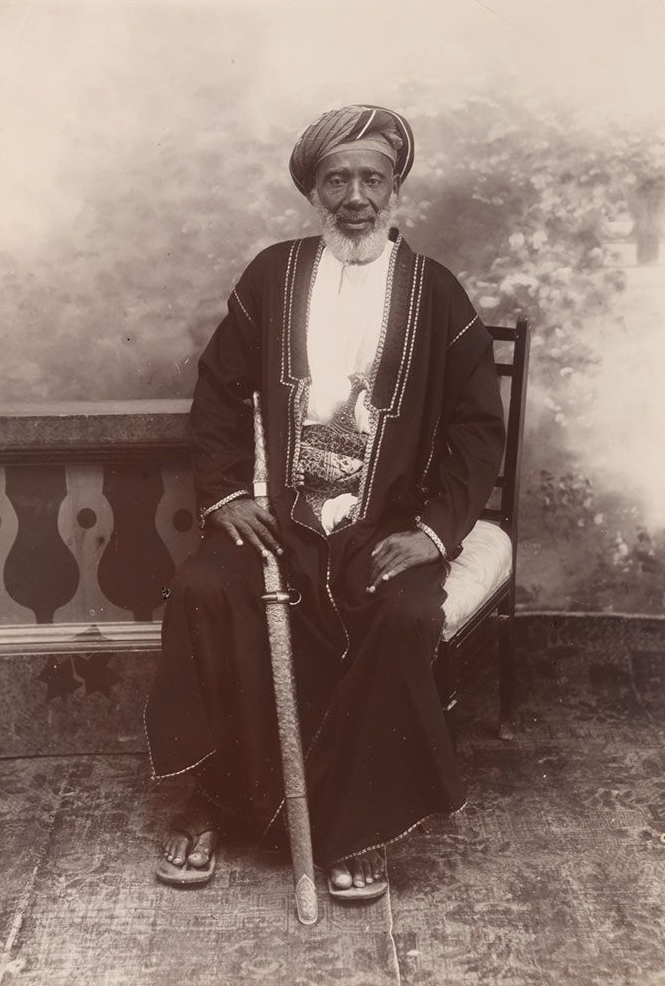 Tippu Tip (Muhammed el Murjebi also Hemed bin Mohammed), c.1890.